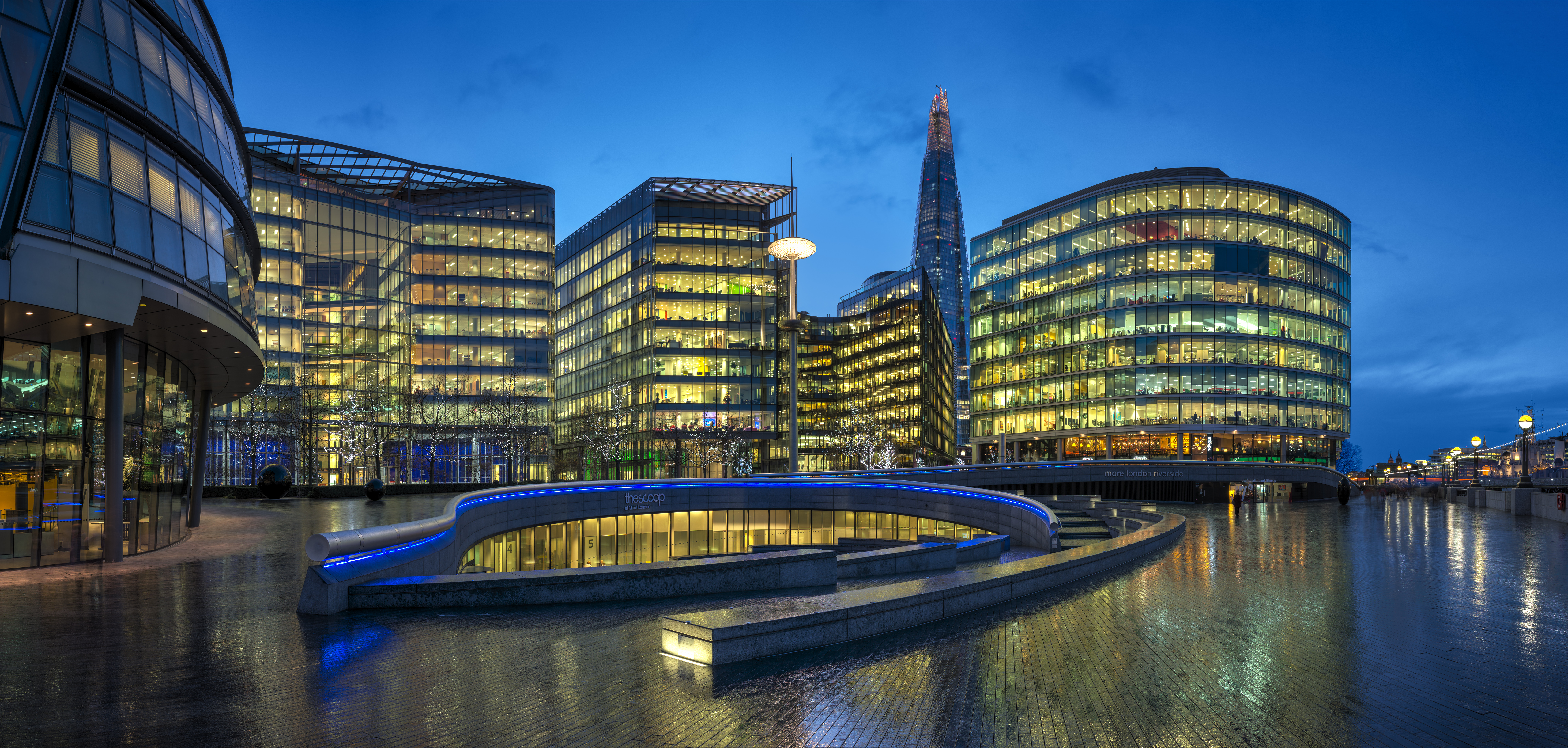 A panoramic view of the More London Office development on the southern side of the Thames in central London.